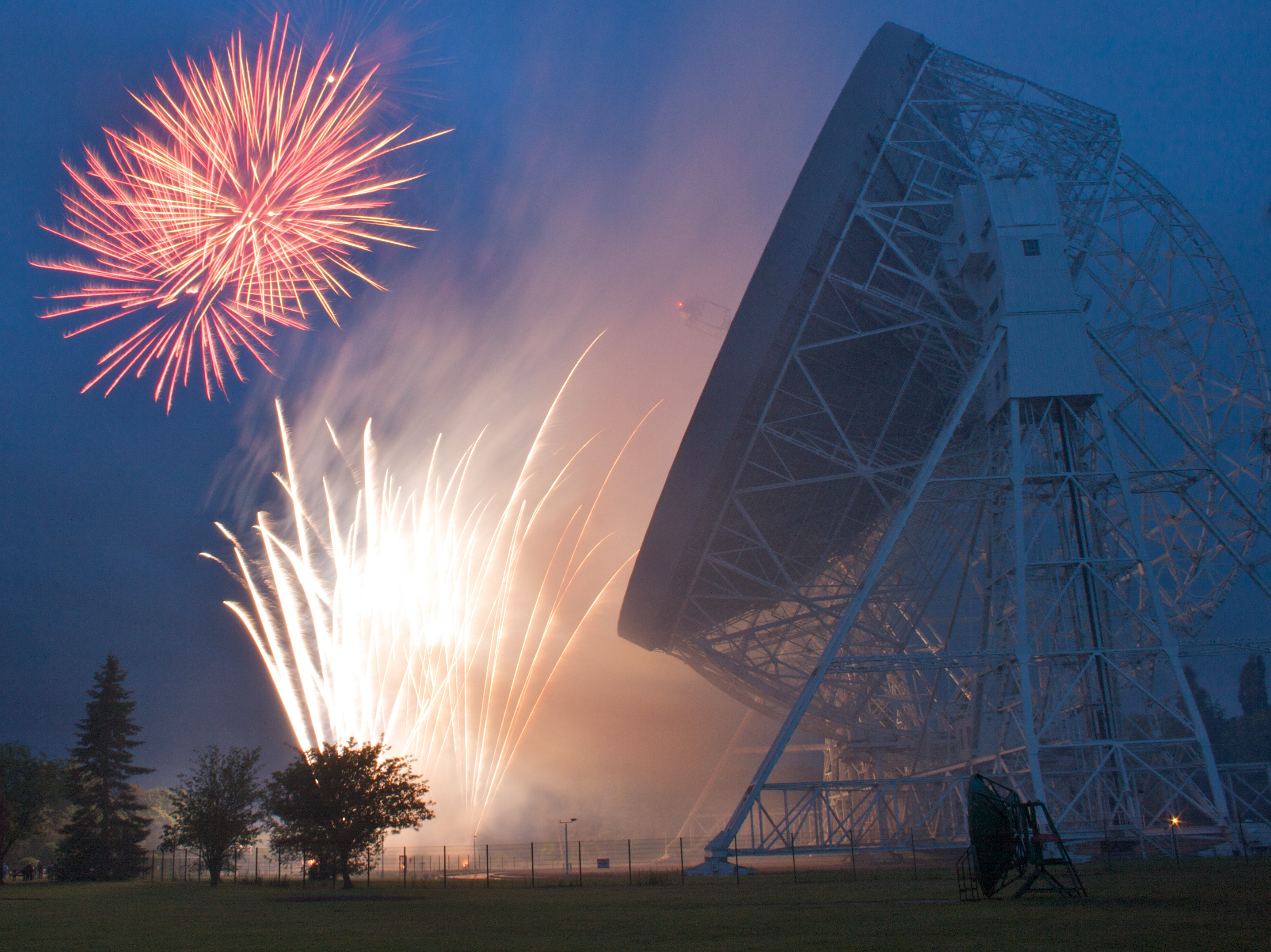 Lovell Telescope, Jodrell Bank Observatory.